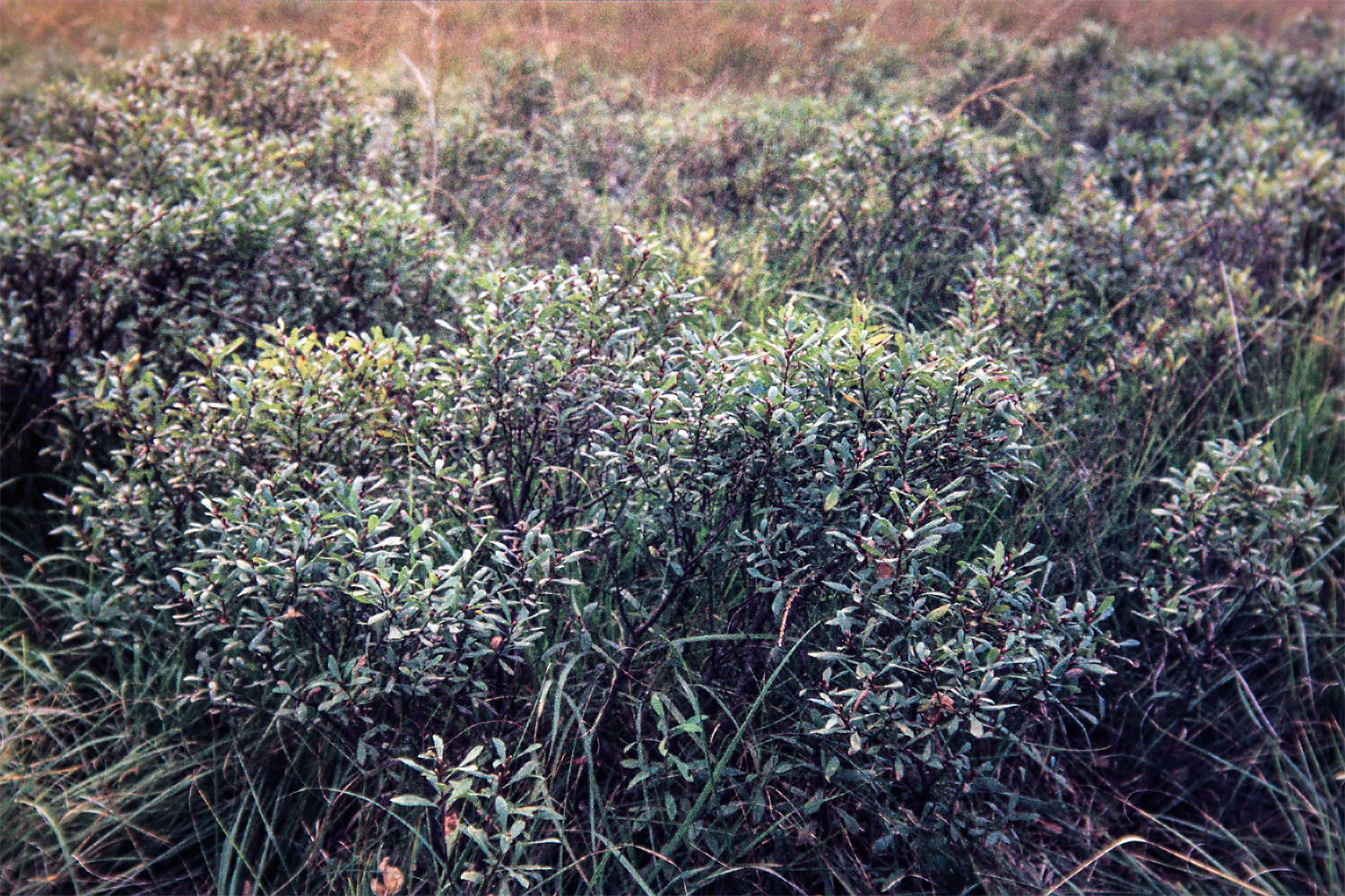 Sweet gale (Myrica gale) in a bog near "Wolfmeer" (nature reserve "Veenhuser Königsmoor)", district Leer, northwestern Lower Saxony, Germany.